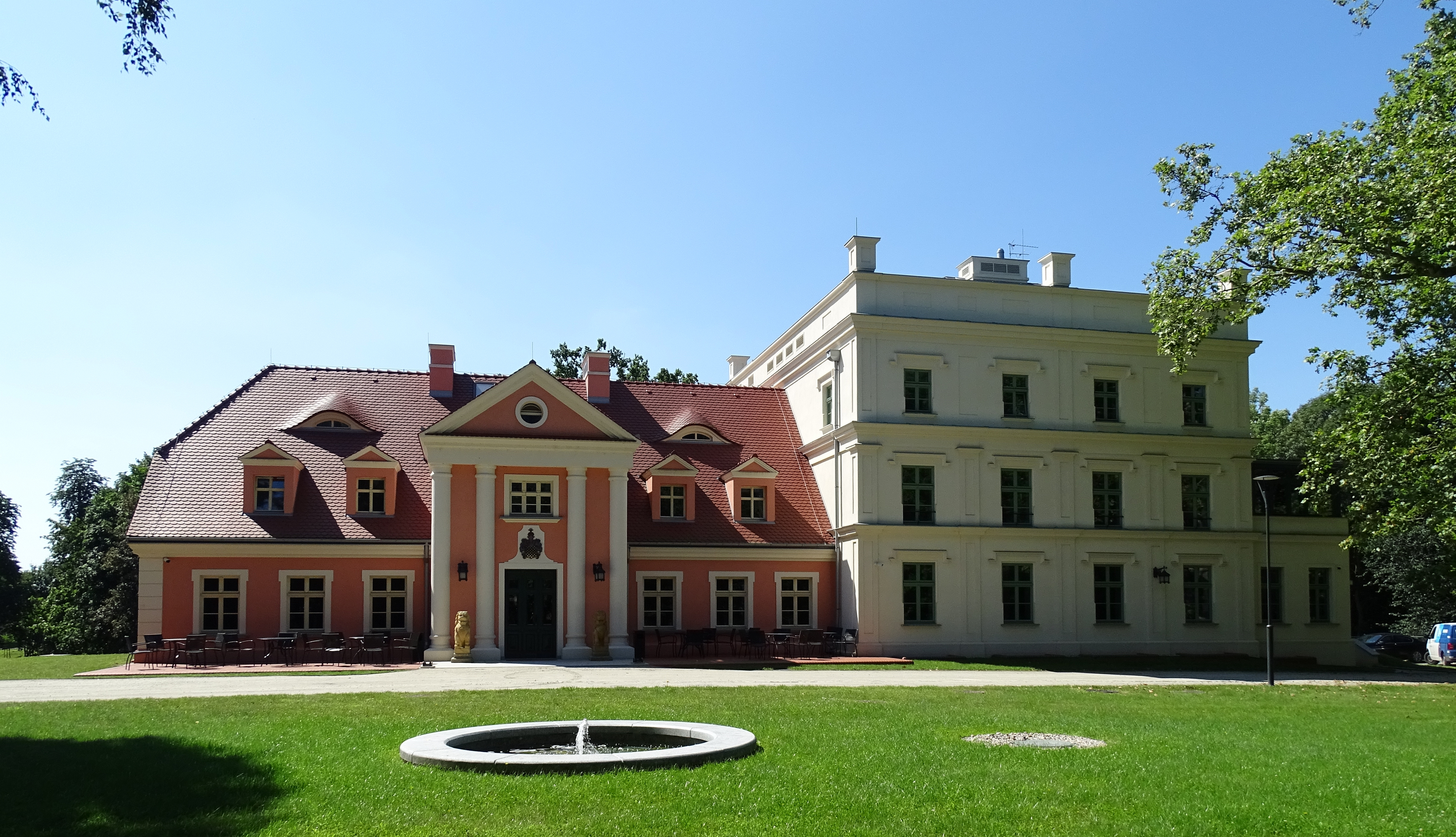 Włościejewki, Greater Poland, the Manor. Built in the 19th century.